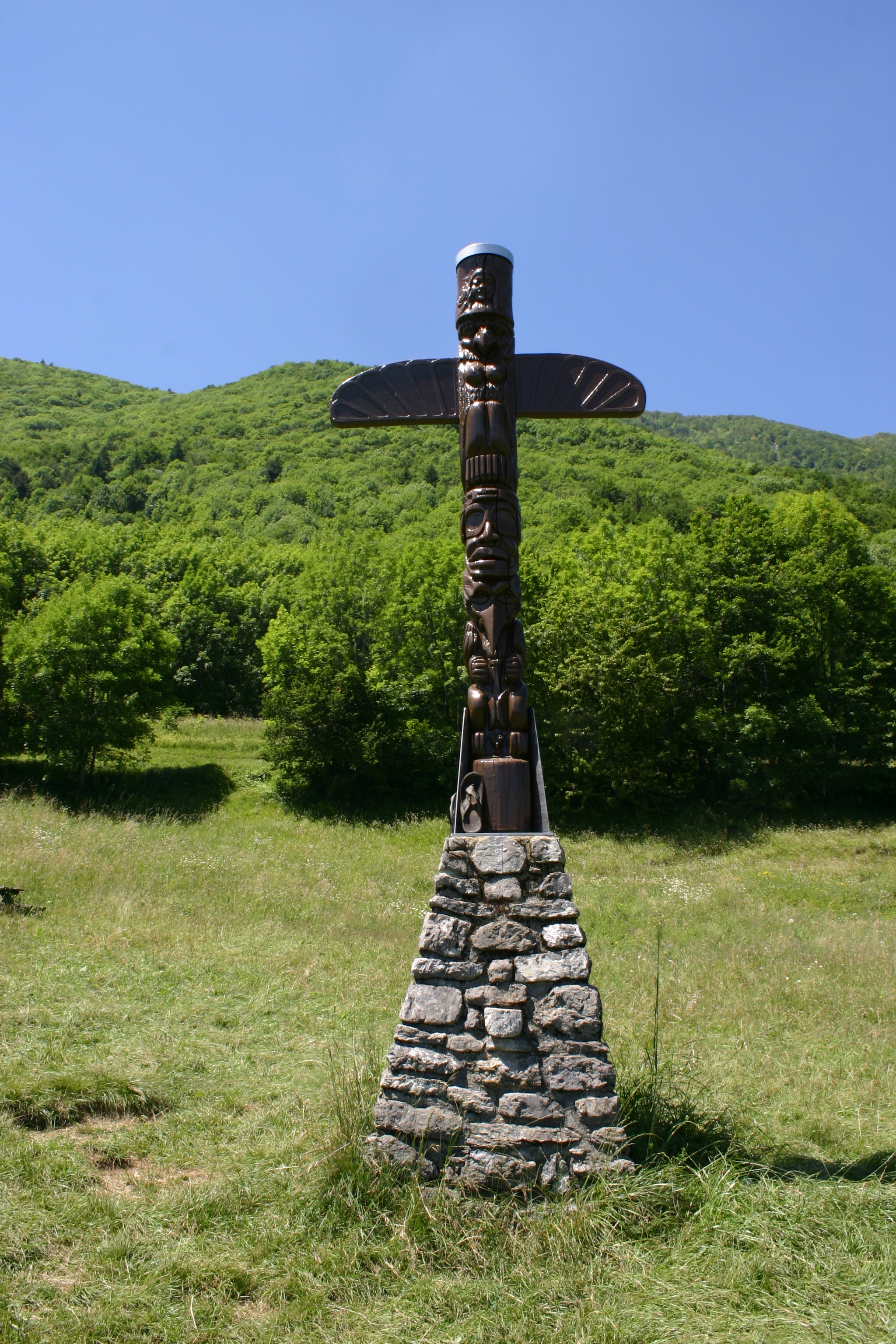 A totem poal in Montlambert